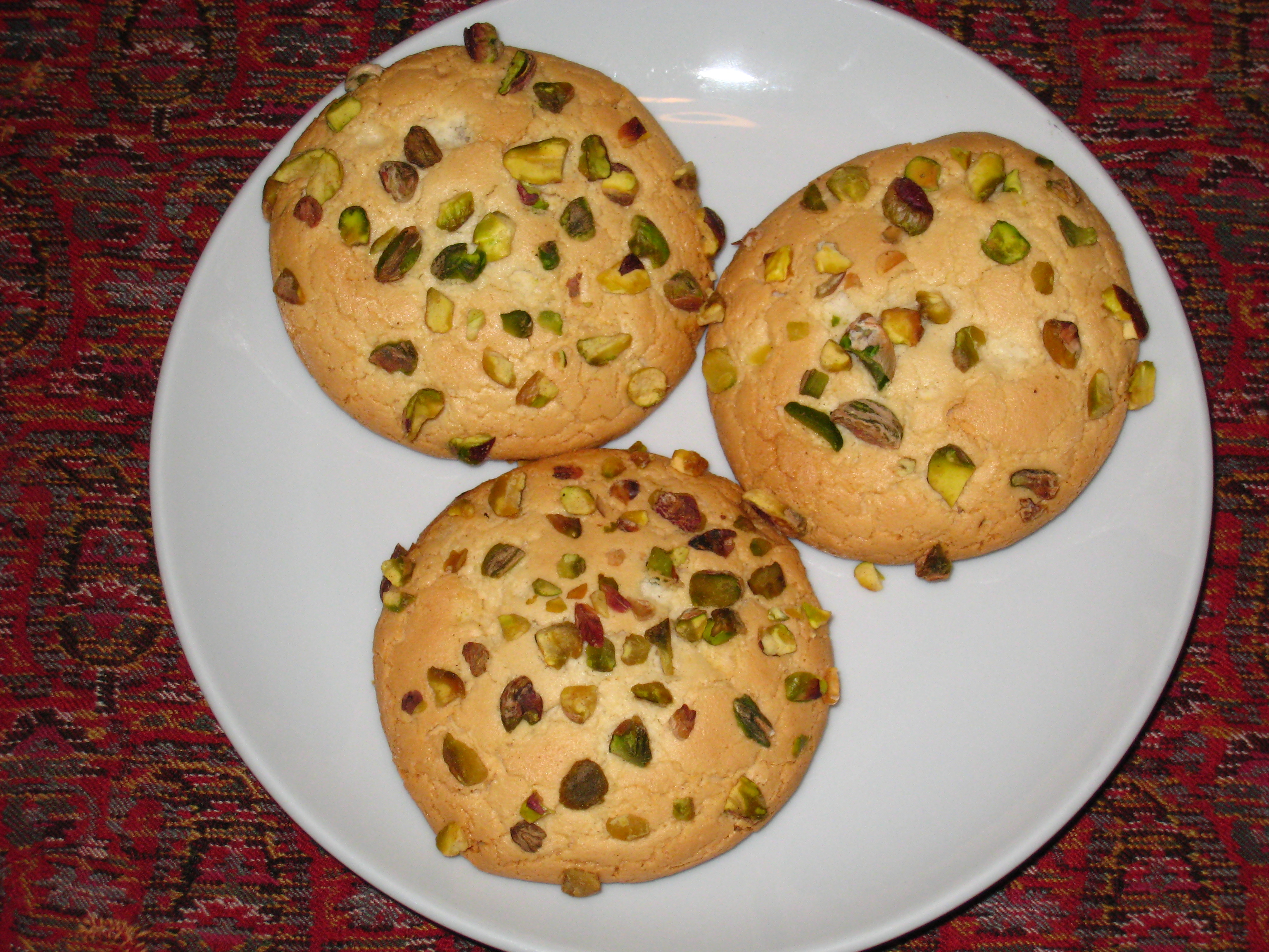 Iranian cookie of Tabriz :Ghorabiyeh